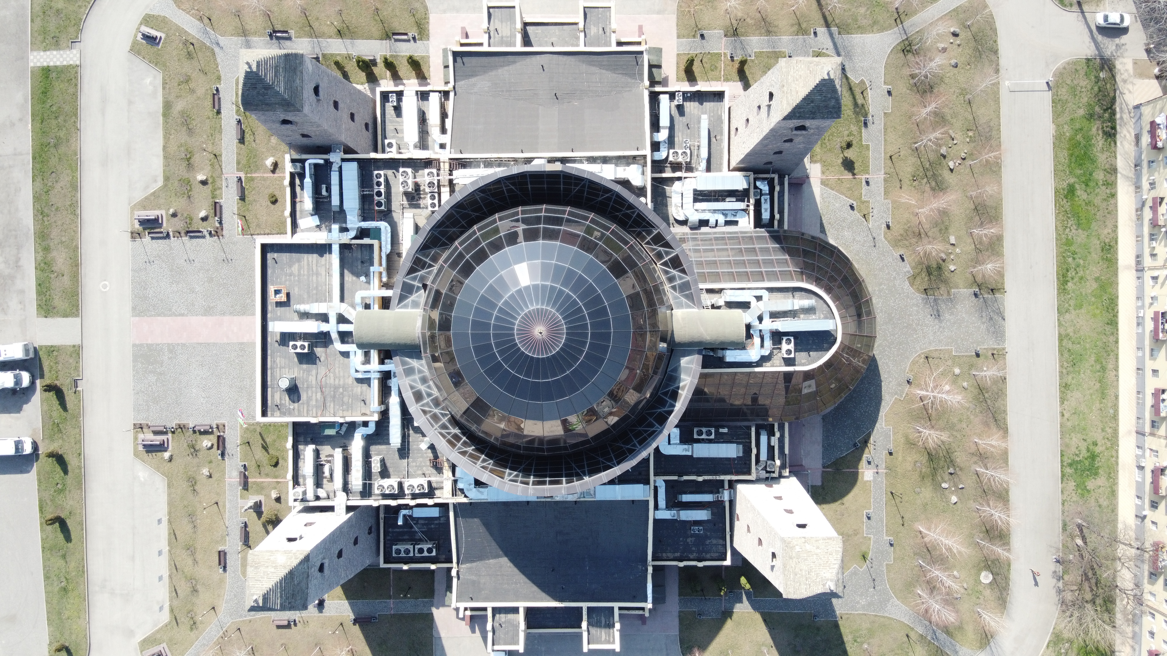 National Museum of Chechen Republic, aerial view